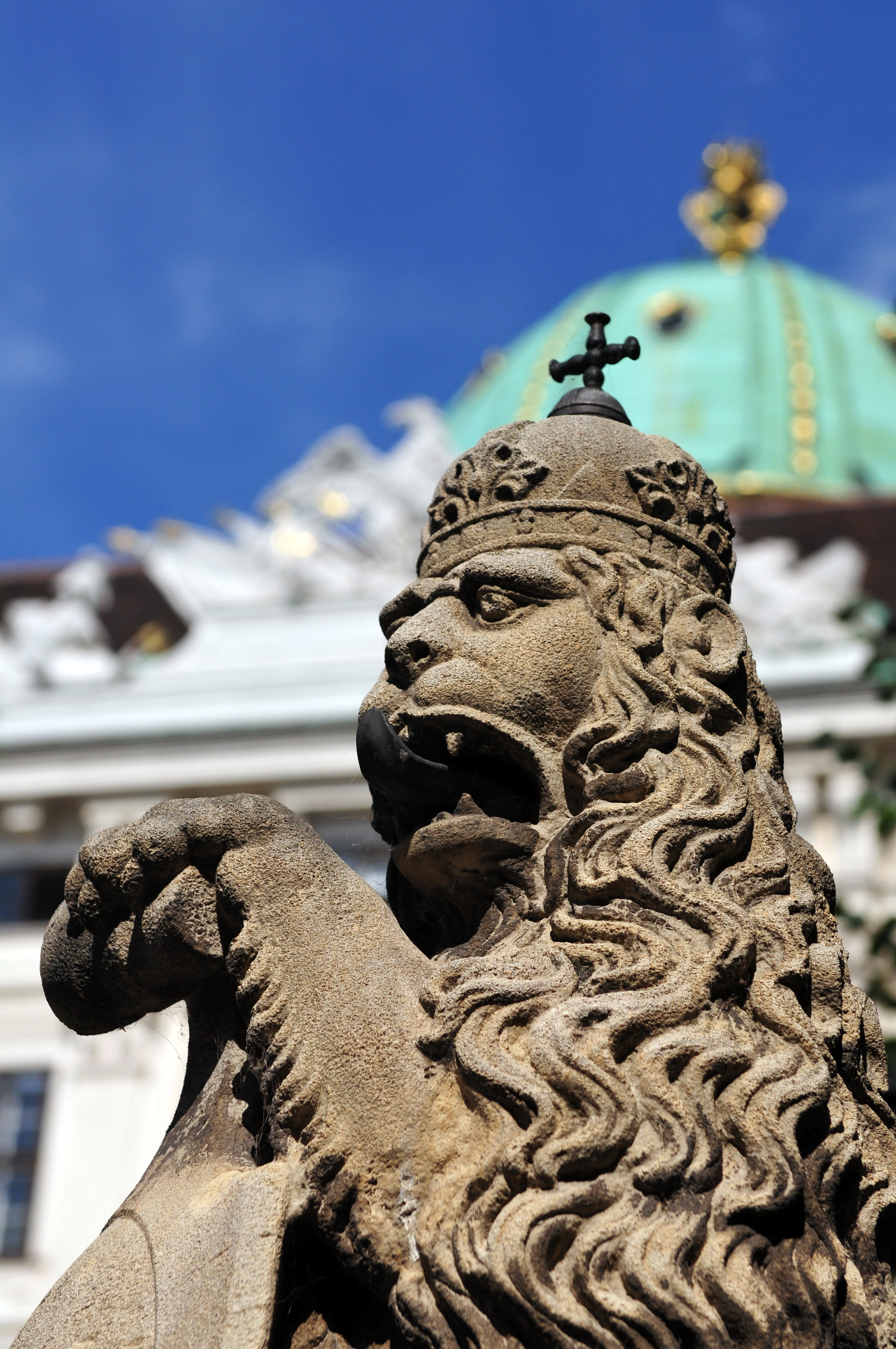 Vienna, Detail in the Hofburg